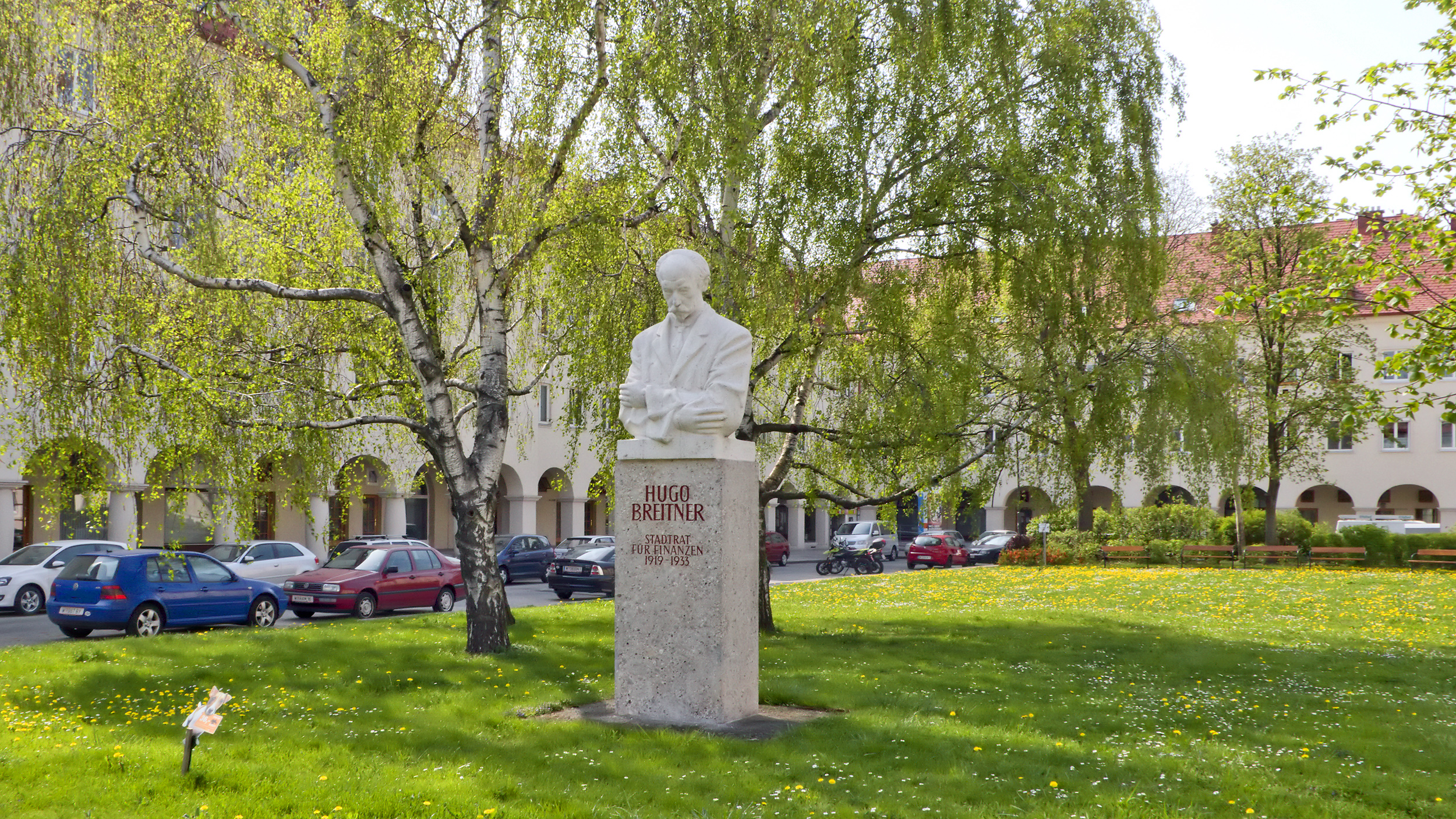 Residential building Hugo-Breitner-Hof in Vienna Penzing